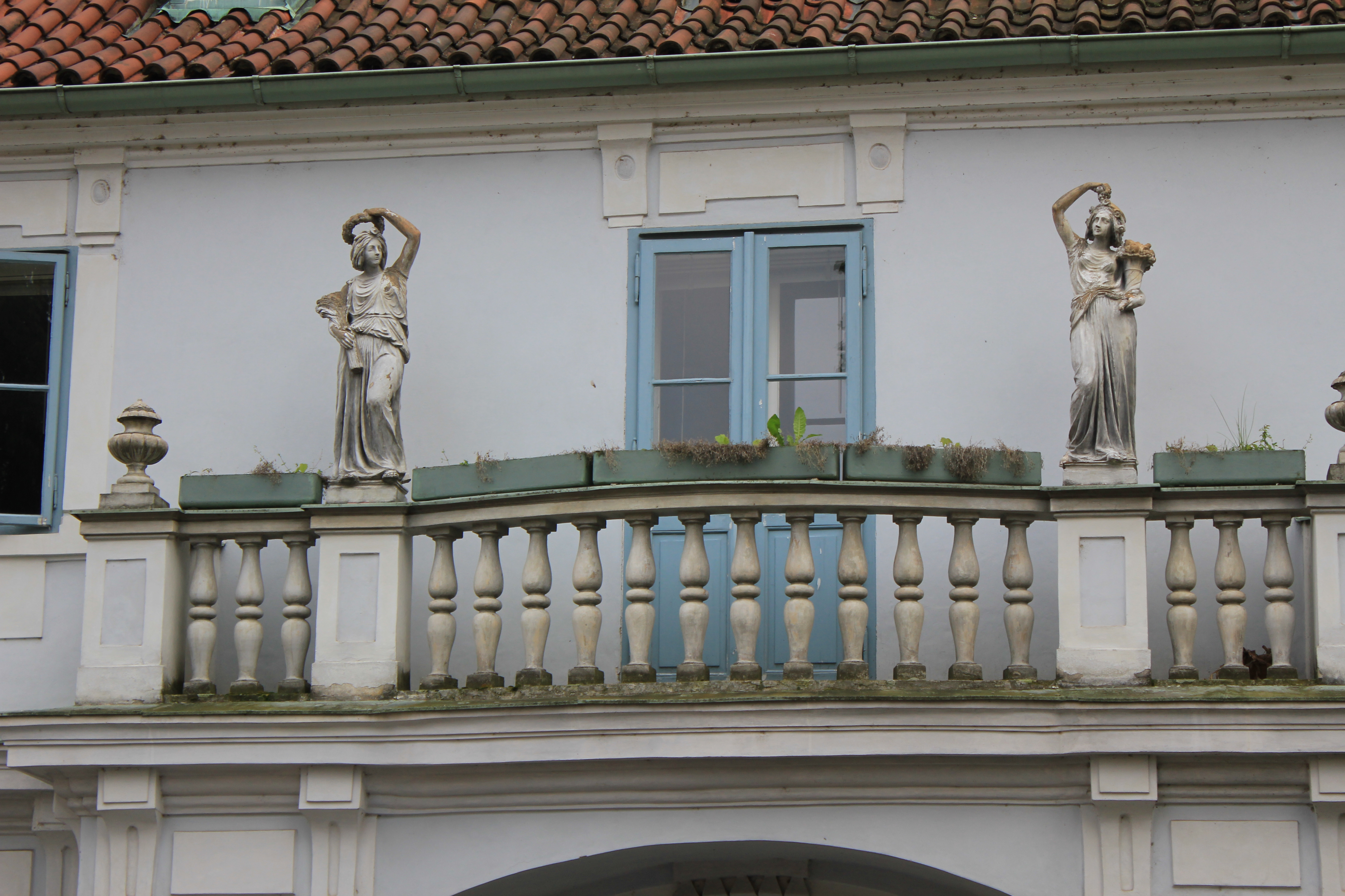 Beautiful railing on balcony at Mala Strana